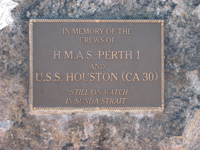 Commemorative plaque for HMAS Perth and USS Houston at Rockingham Naval Memorial Park. For the stone the plaque is mounted on, see File:Rockingham Naval Memorial Park, Commemorative stone for HMAS Perth (D29) and USS Houston (CA-30).jpg.